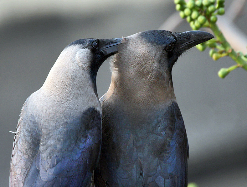 House Crow Corvus splendens in Kolkata, West Bengal, India.